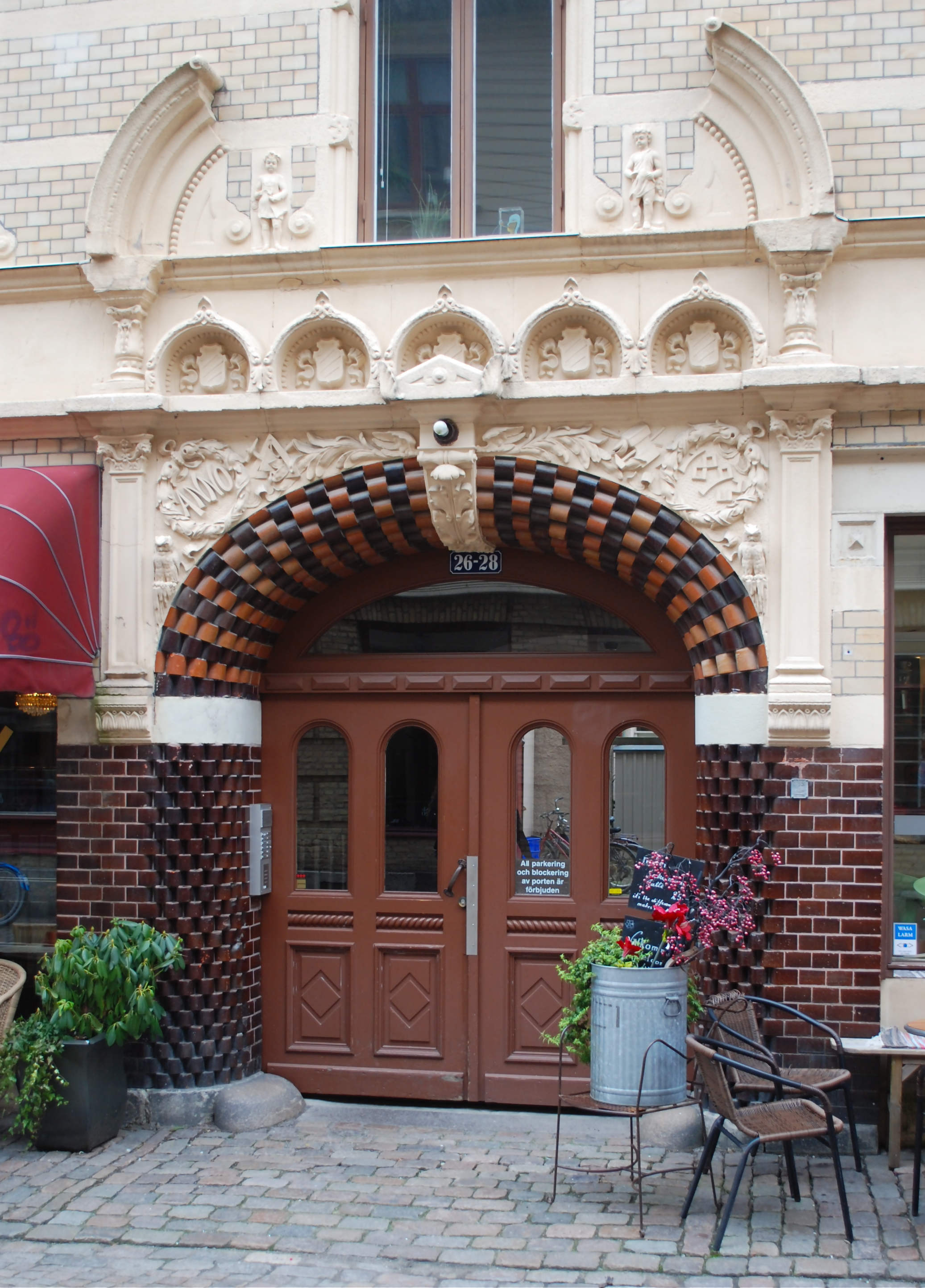 Entrance to Haga Nygata number 26-28